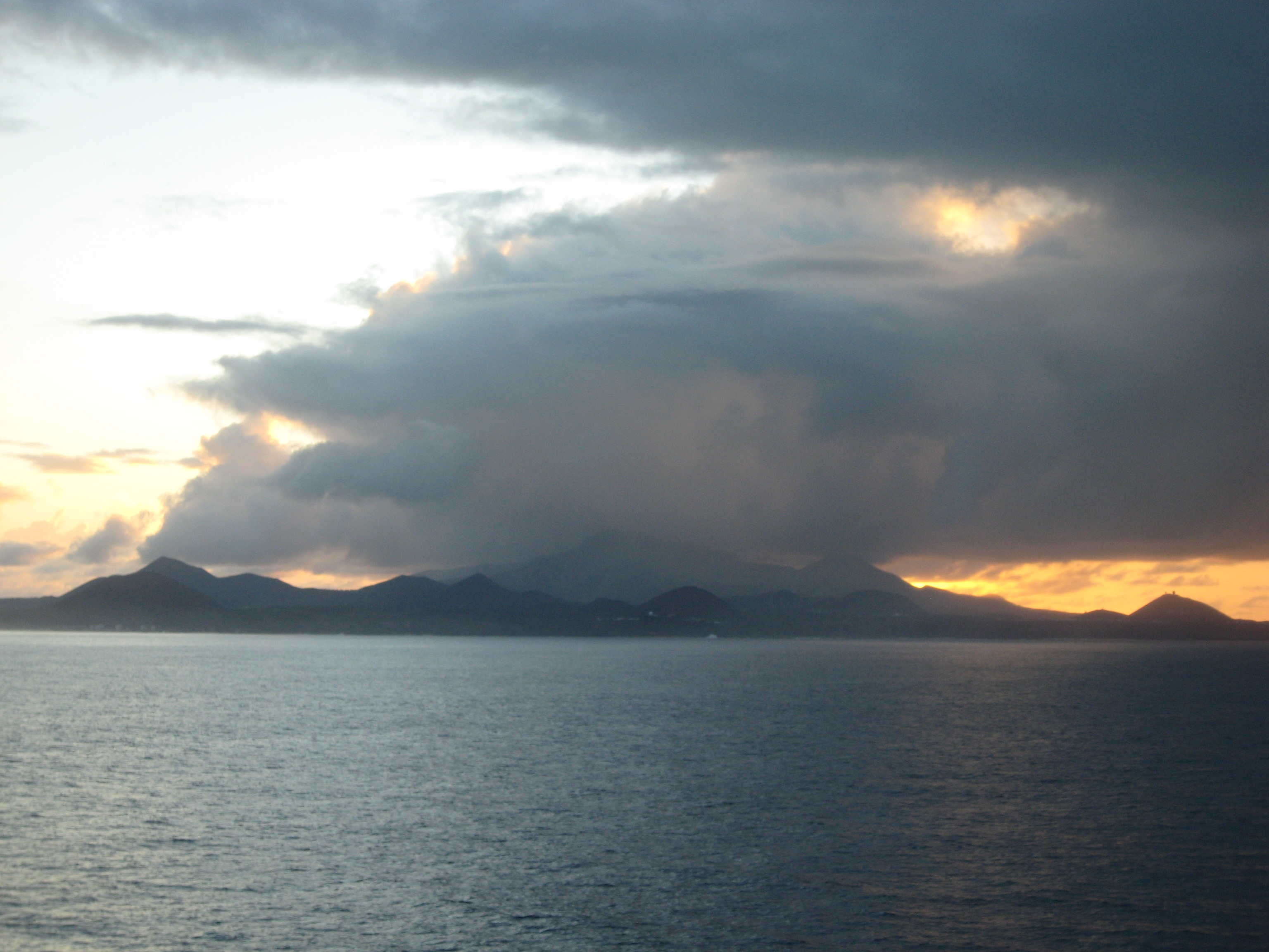 Ascension Island, 2011.